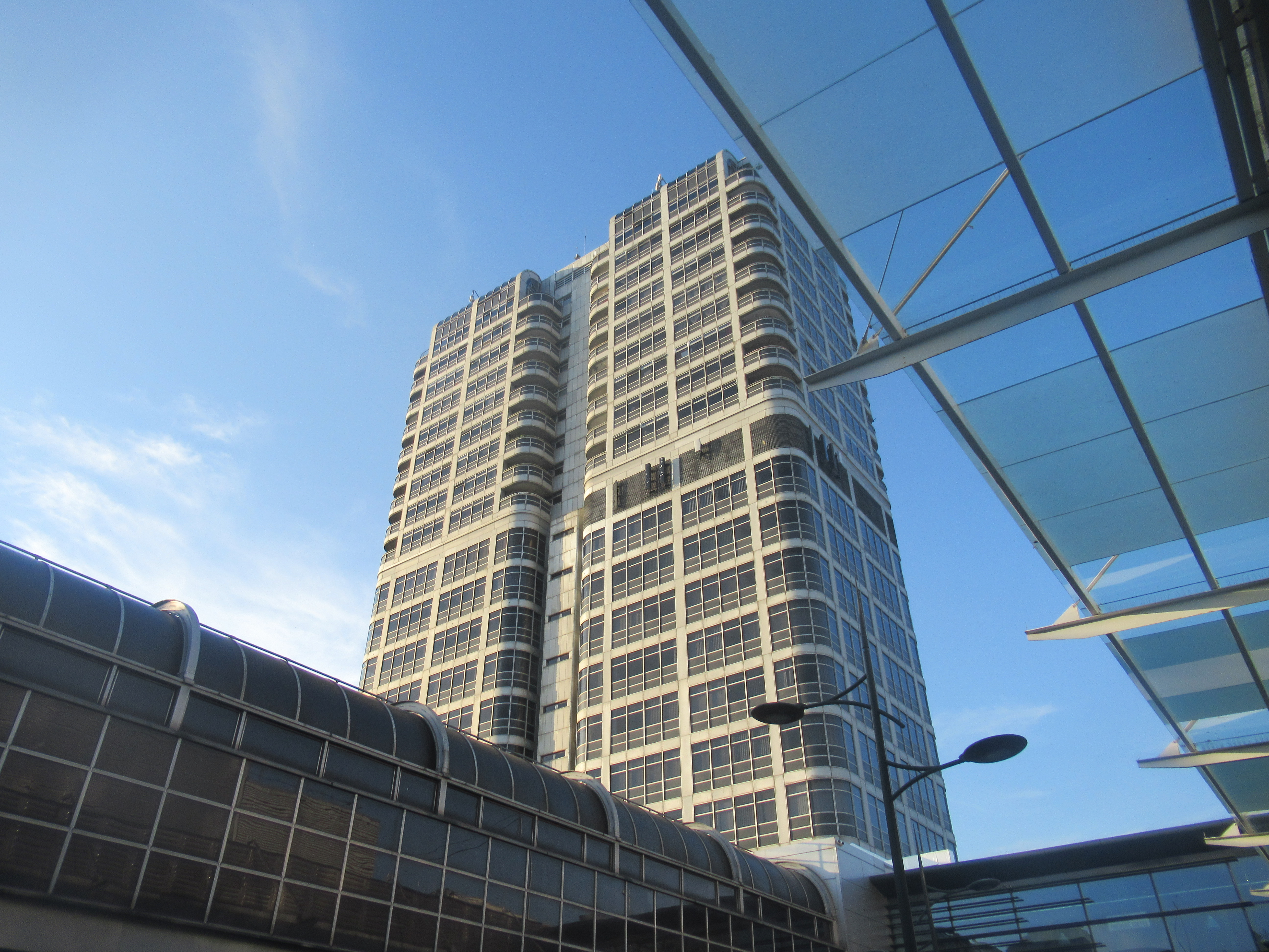 david murray john tower taken from near the mcdonalds in swindon's town centre.